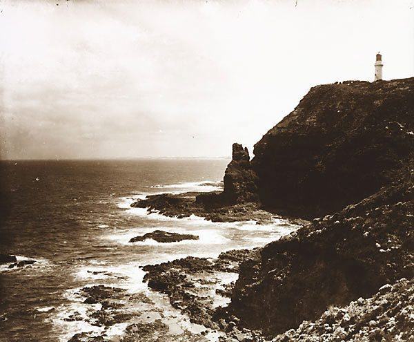 Artist : Nicholas Caire (England; Australia; , b.1837, d.1918) Description: gelatin silver photograph, sepia toned